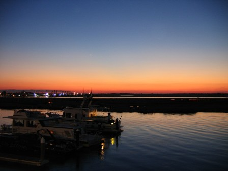 Wildwood Crest Sunset on the back bay as seen from Two Mile Landing.